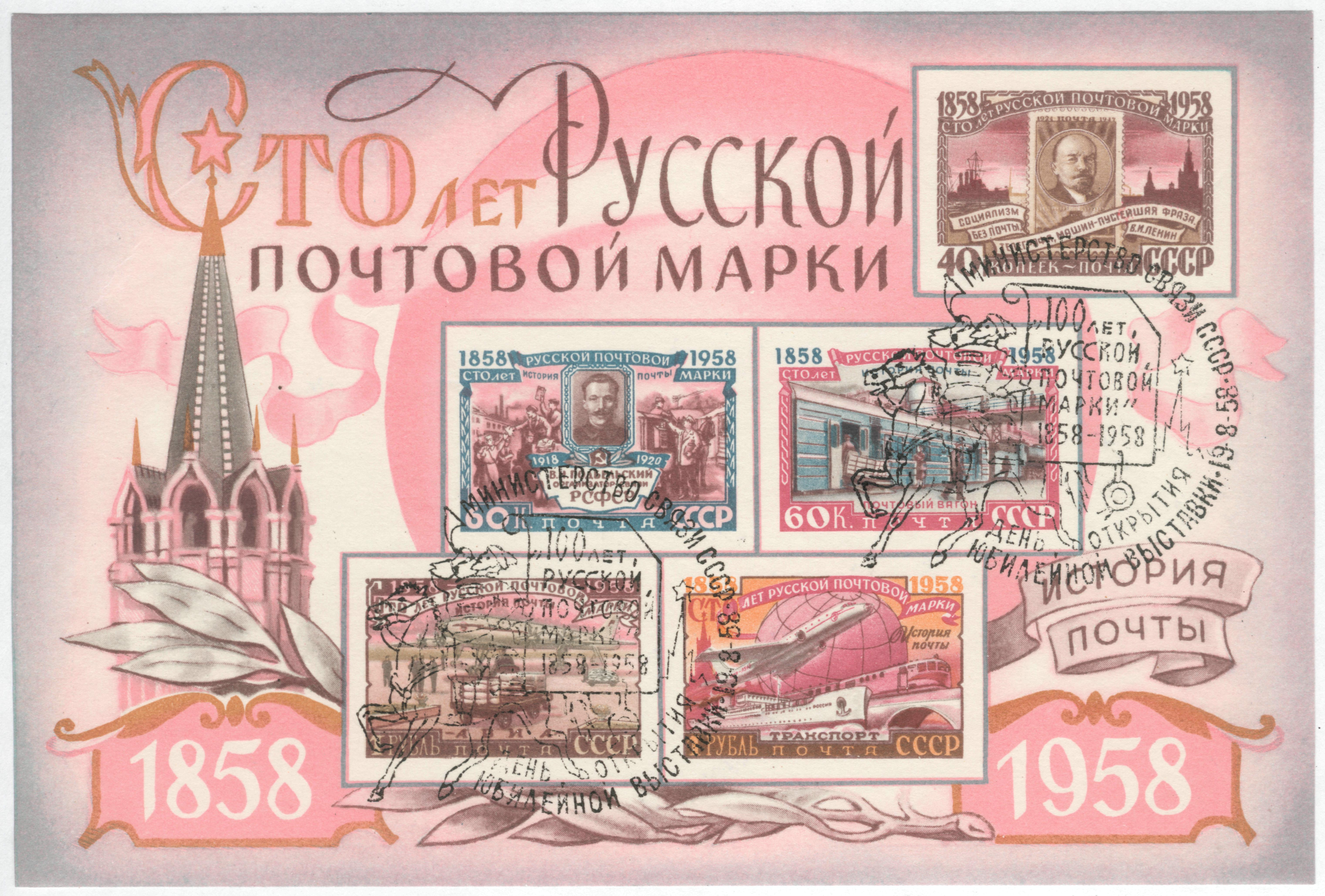 USSR miniature sheet, 1958, A Centenary of the Russian postage stamp. Special postal marking on the opening day of the stamp exhibition devoted to this jubilee.